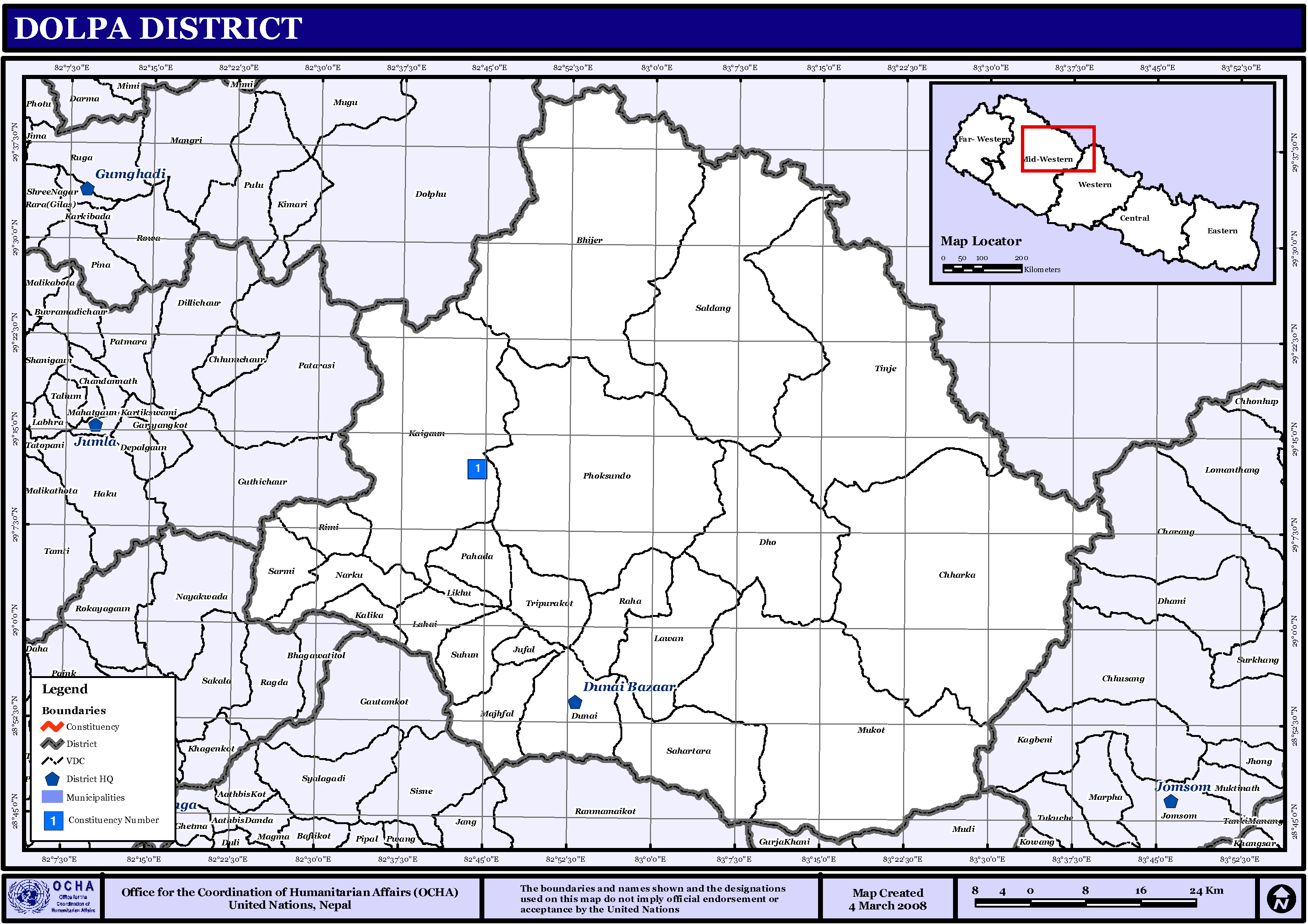 Map displaying Village Development Committees in Dolpa District, Nepal